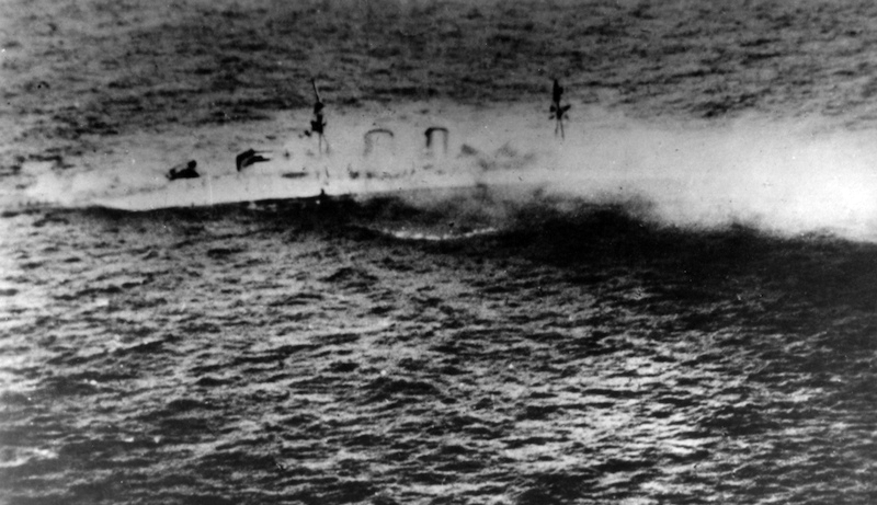 The Royal Navy heavy cruiser HMS Exeter sinking after the Battle of the Java Sea, 1 March 1942.